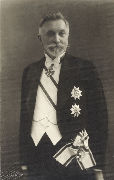 Antanas Kriščiukaitis with the Order of Vytautas the Great and Order of the Lithuanian Grand Duke Gediminas